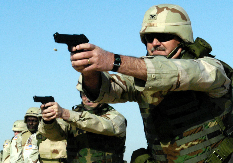 Col. Robert Dean fires a 9 mm pistol while moving during a Close Quarters Marksmanship (CQM) drill at the Udairi Range Complex, Kuwait. The CQM drill is a portion of the Entry Control Point range required for all security forces in theater. Dean is commander of the 114th Area Support Group and attended the range with the senior leaders of the 377th Theater Support Command.